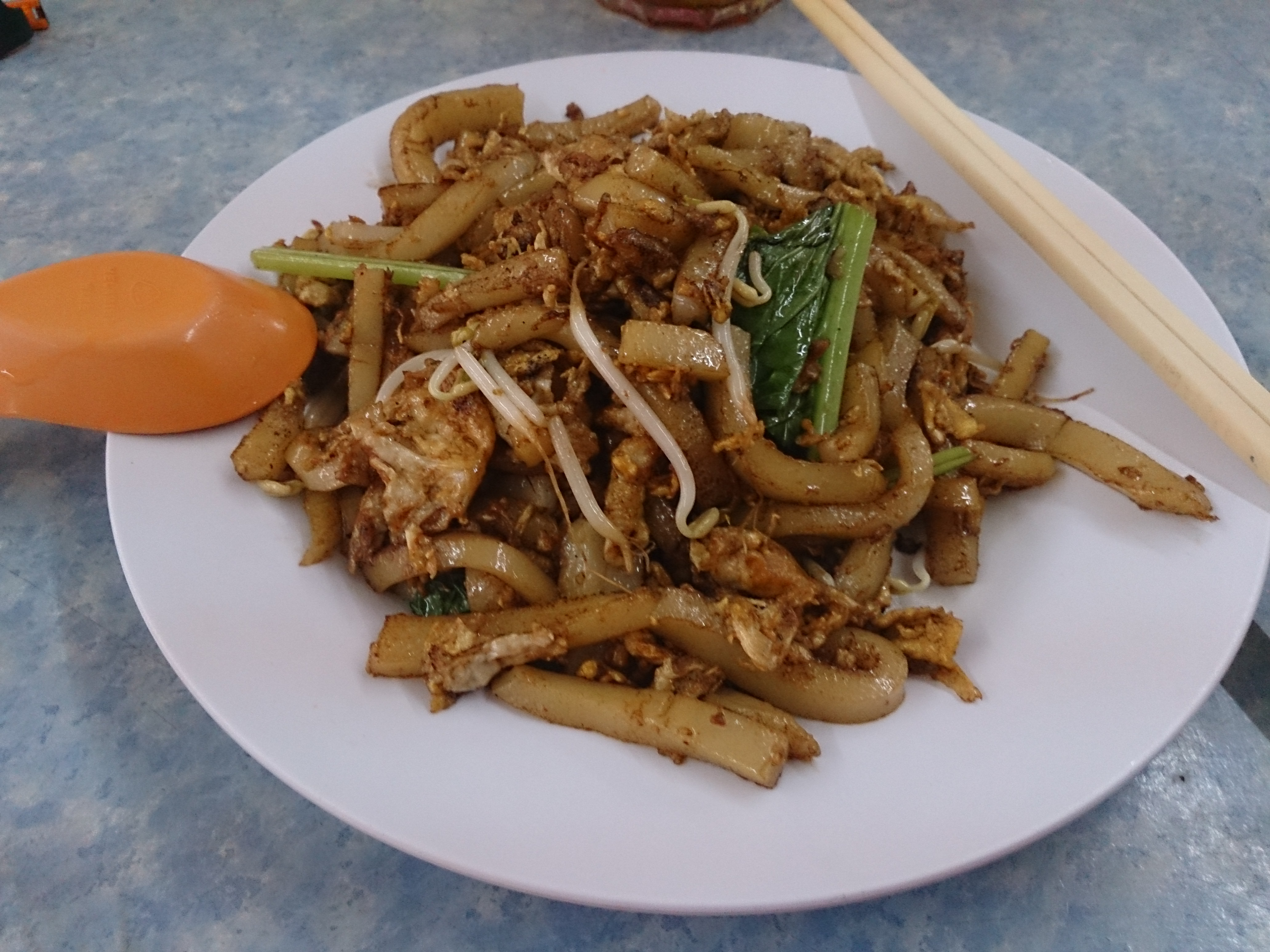 Marudi Famous Kueh Tiaw.